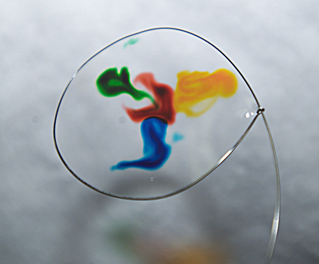 As a demonstration of how fluids act in a weightless environment, astronaut Donald Pettit spreads food coloring in a thin water film. See videos and info at [1] and [2] for more.